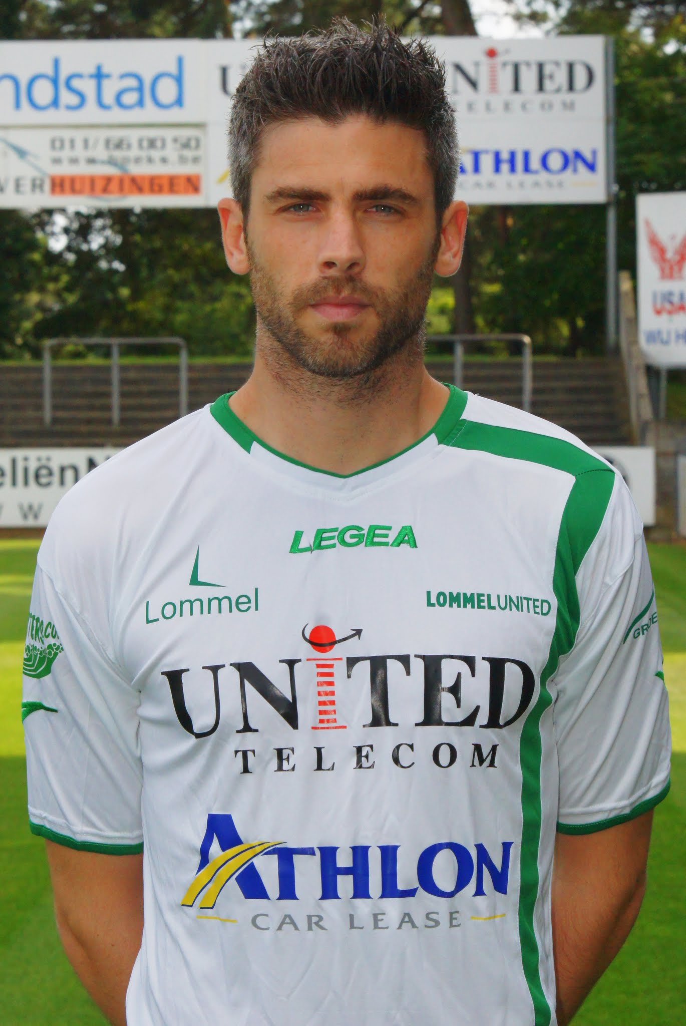 Midfielder